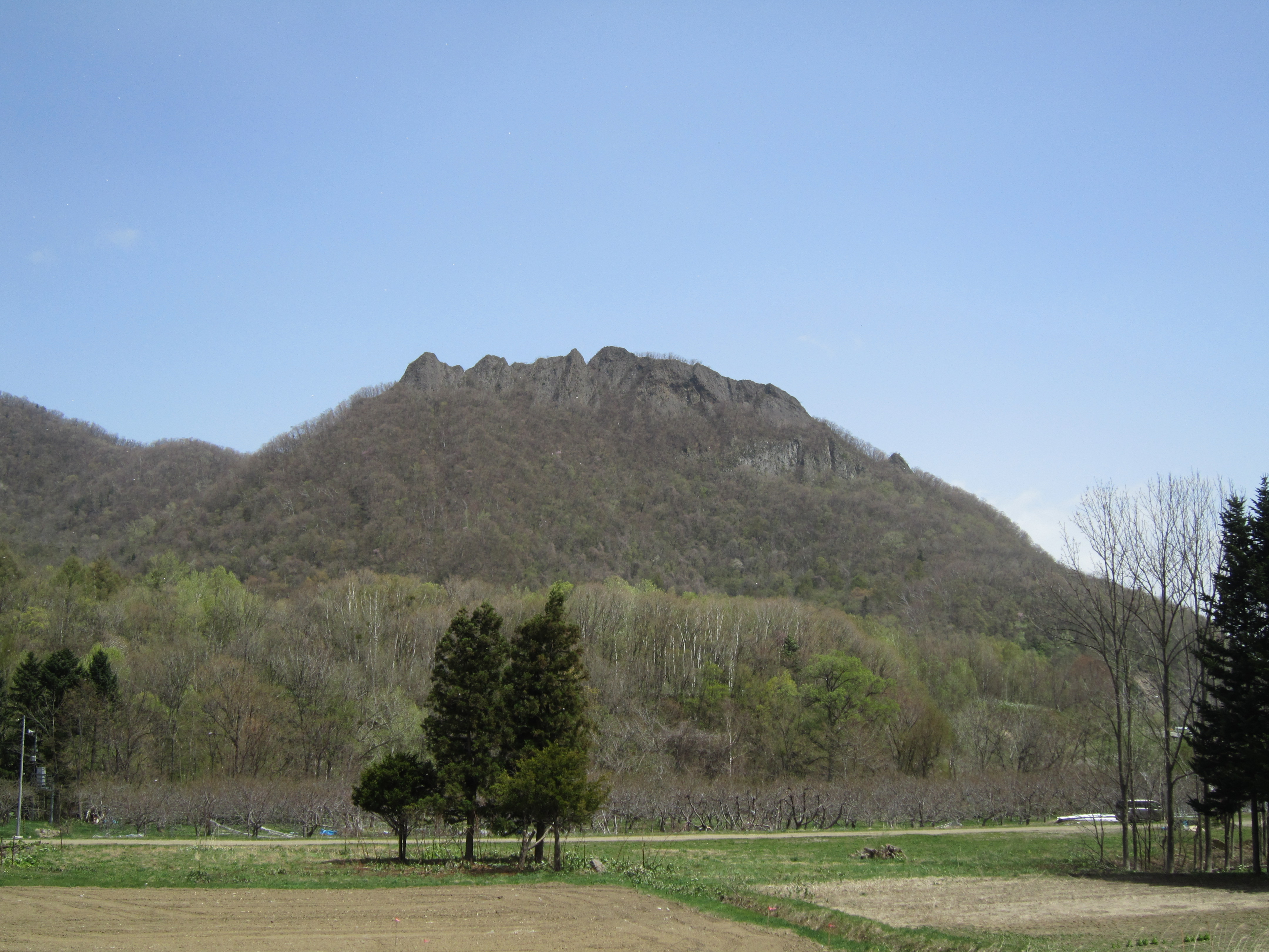 Mount Kannon-iwa